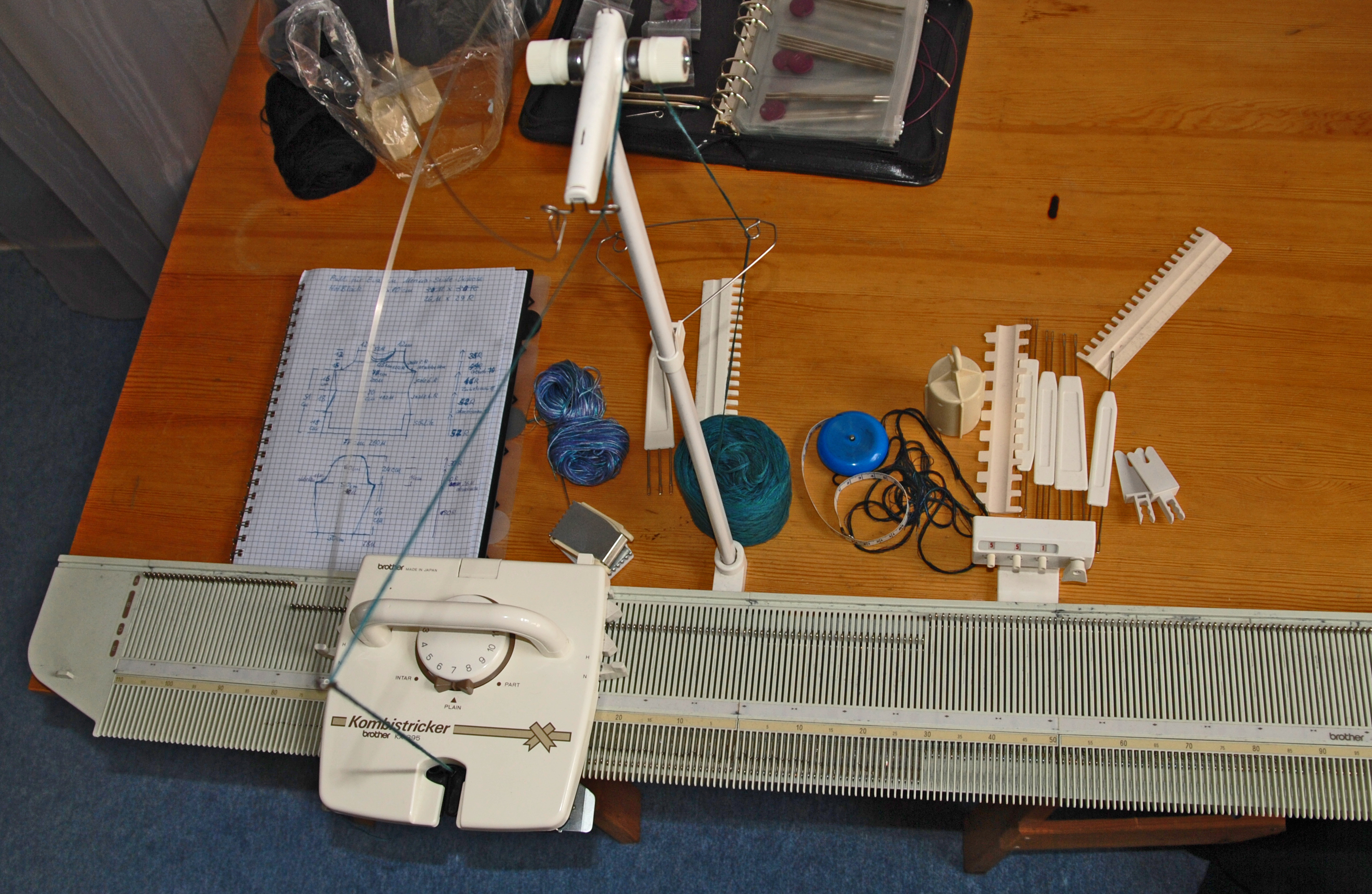 Simple Home Knitting Machine